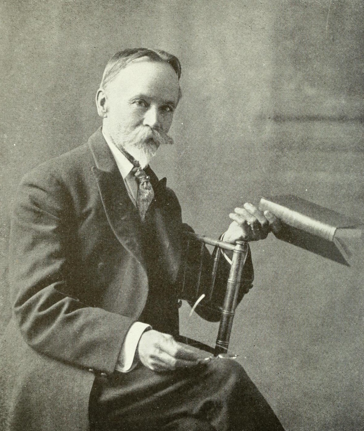 George Washington Cable